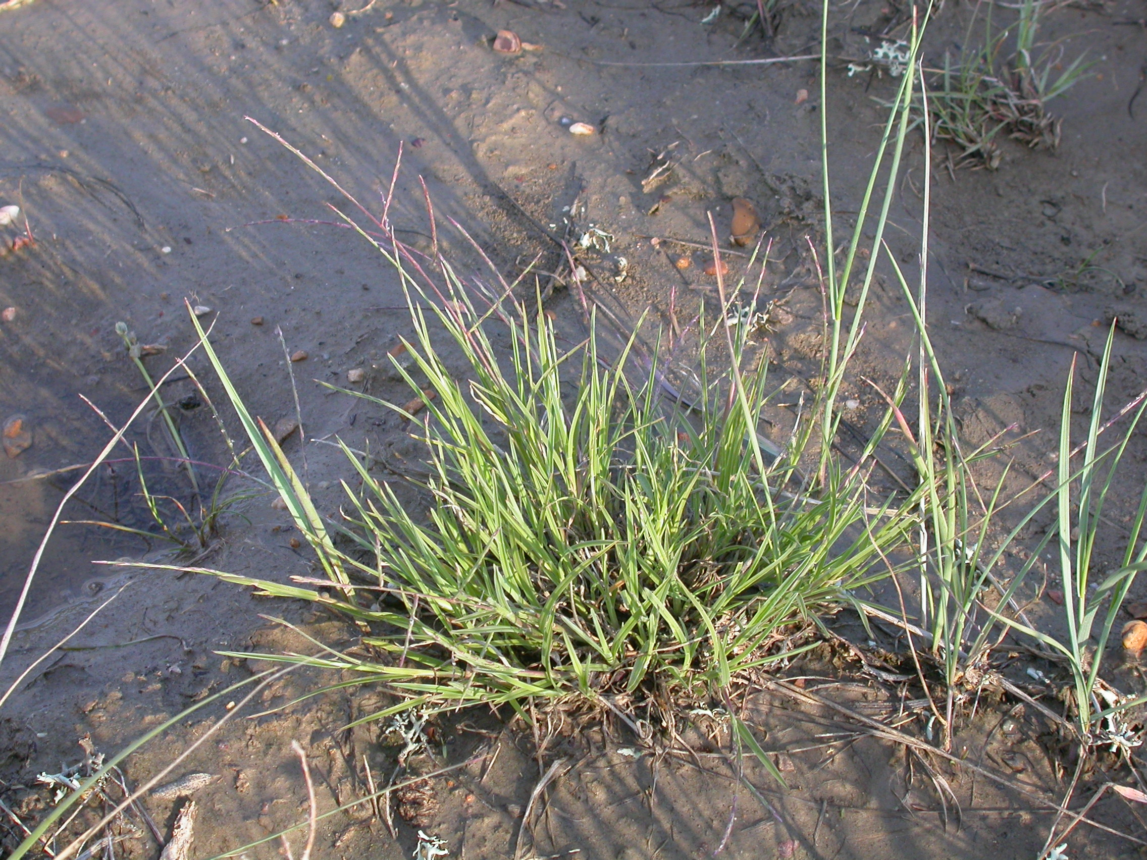 Schedonnardus growing isolated from other grasses will manifest a bunched growth habit.